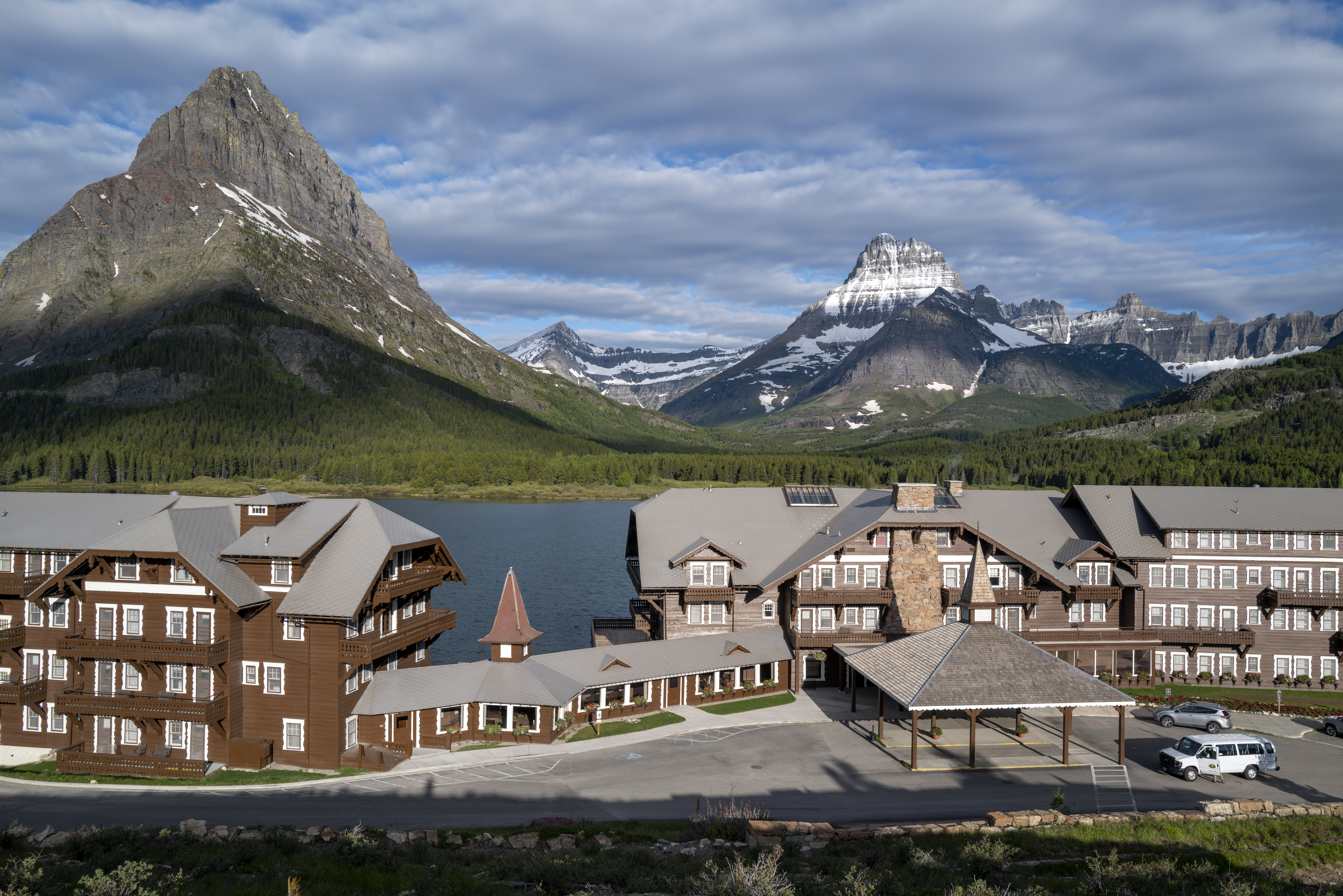 The Many Glacier Hotel in 2019 by Christopher Michel